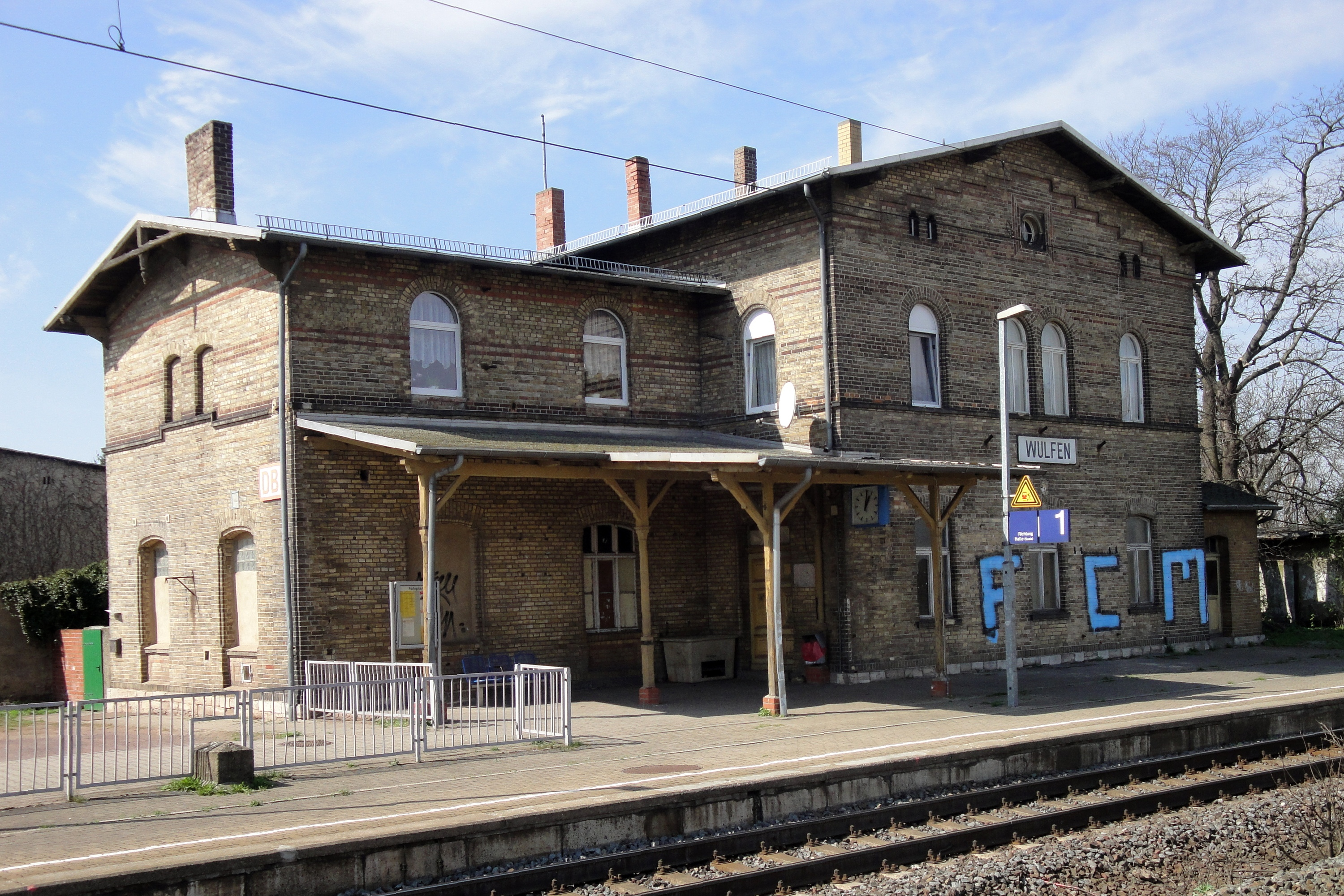 Train station Wulfen (Anhalt)